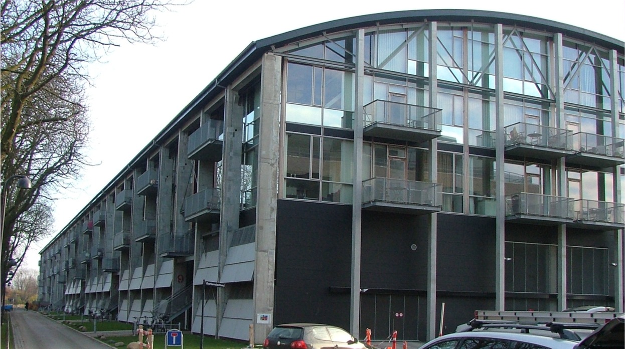 Photos from the former Naval Base Copenhagen: Workshop for MTB's: Now rebuild as appartement building Photo by Jan Kronsell, 2005